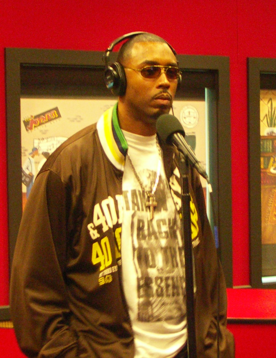 Montell Jordan during a live radio performance on the tom Joyner Morning Show at the show's "Red Velvet" studio in Dallas, TExas